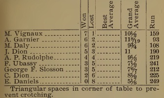 Scoreboard of the 1874 Straight-Rail-World Championship at "Tammany Hall" in New York in November